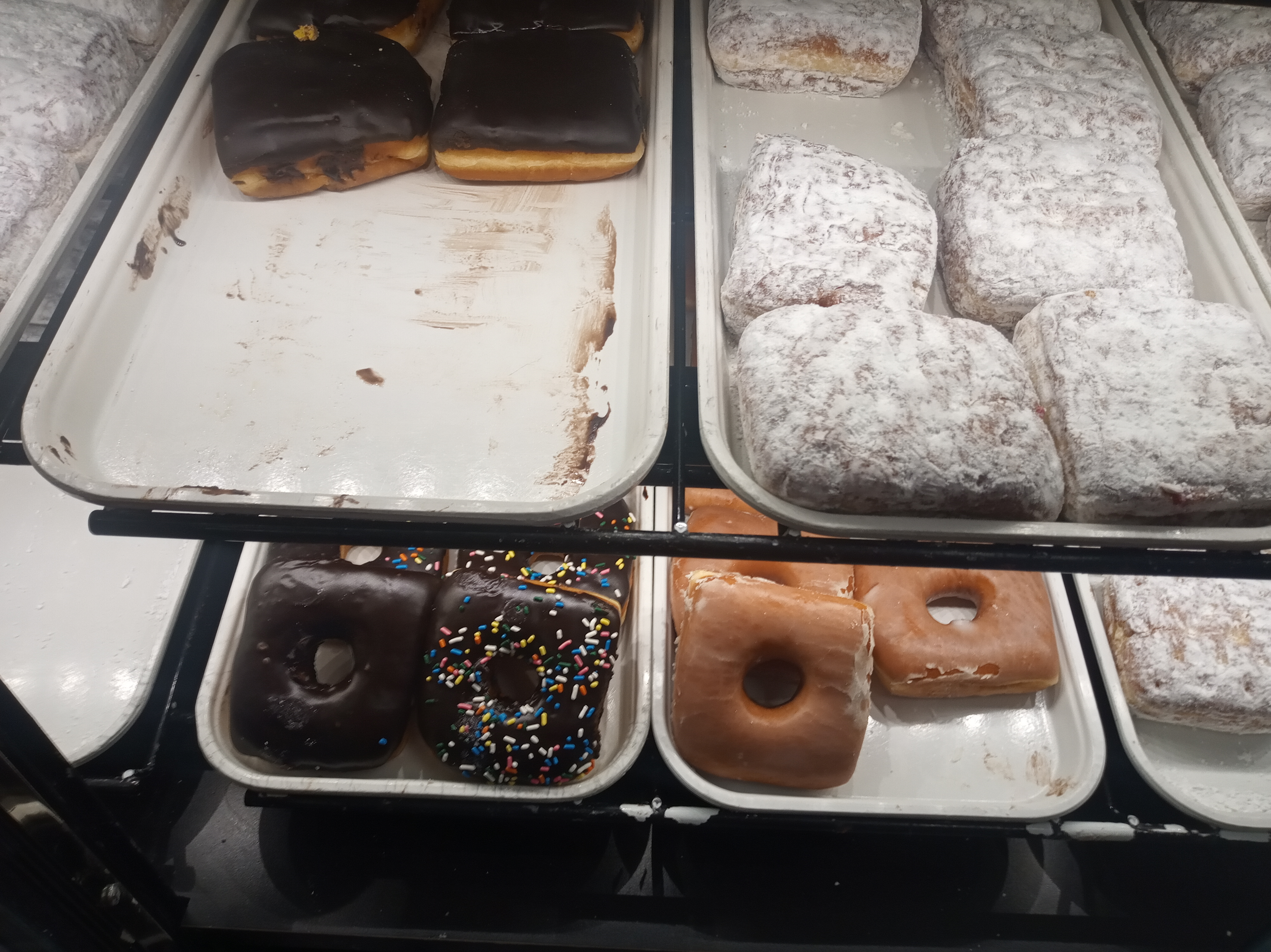 A display of Family Express square donuts at a Family Express location in Laporte County, Indiana.